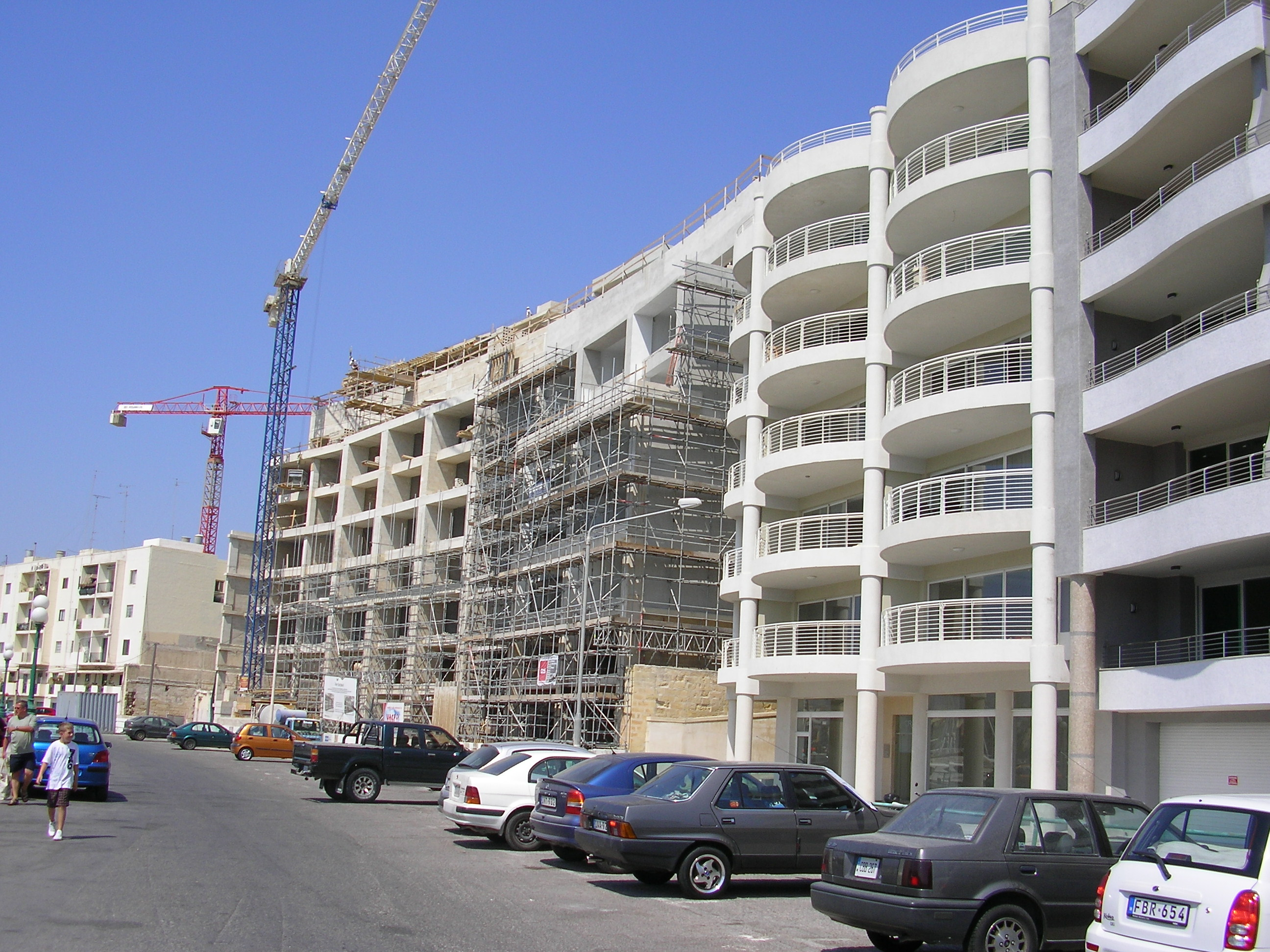 Luxury apartments under construction along the Ta' Xbiex seafront